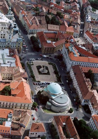 Pécs, Hungary, aerialphotography